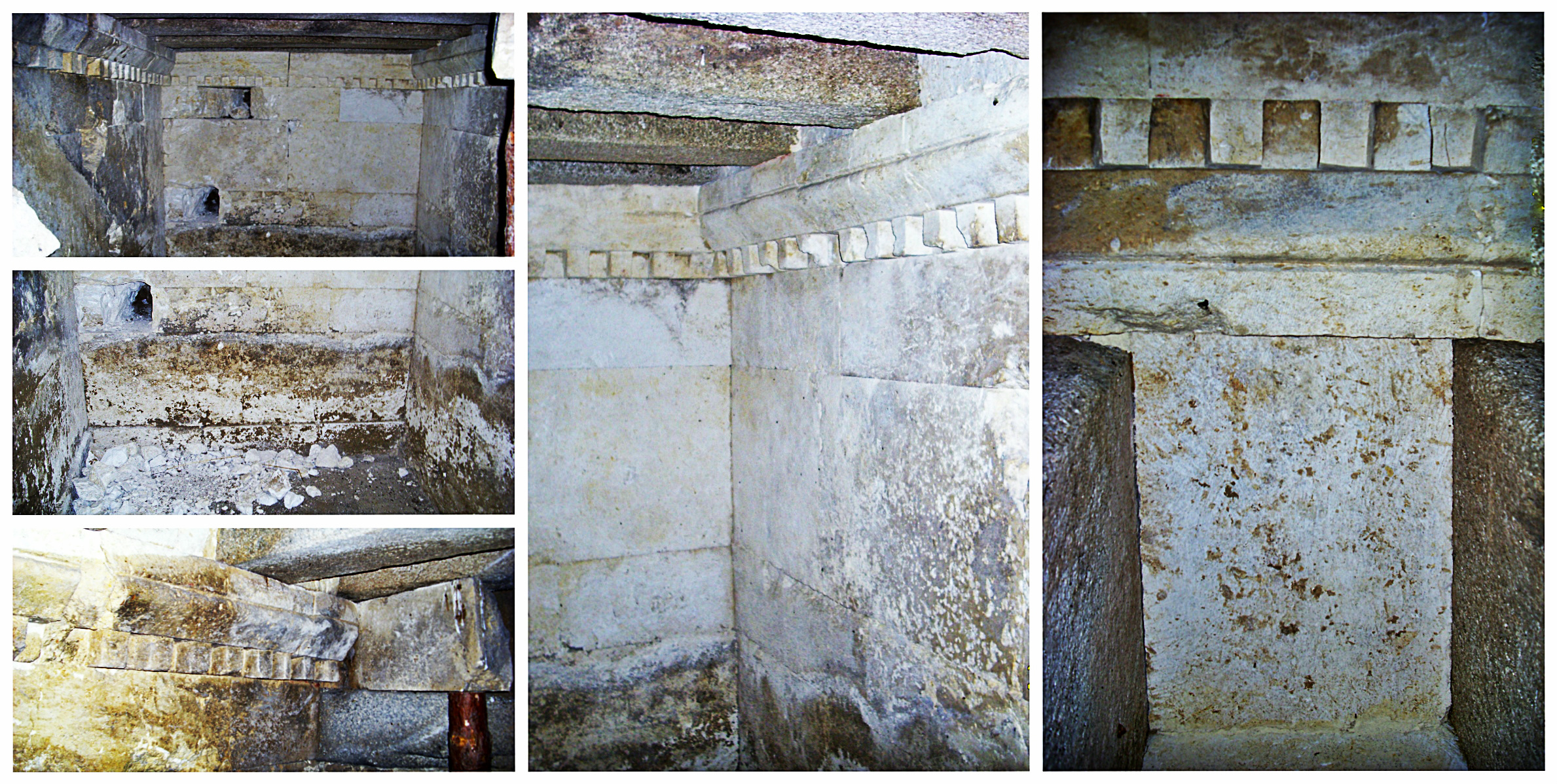 Elenishka Tumulus Heroon Starosel Bulgaria 01